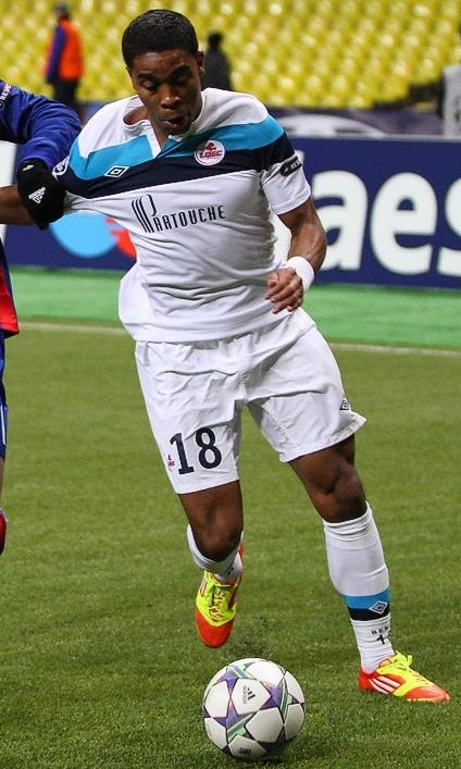 French football player Franck Béria during 2011/2012 Champions League match between CSKA Moscow and Lille OSC